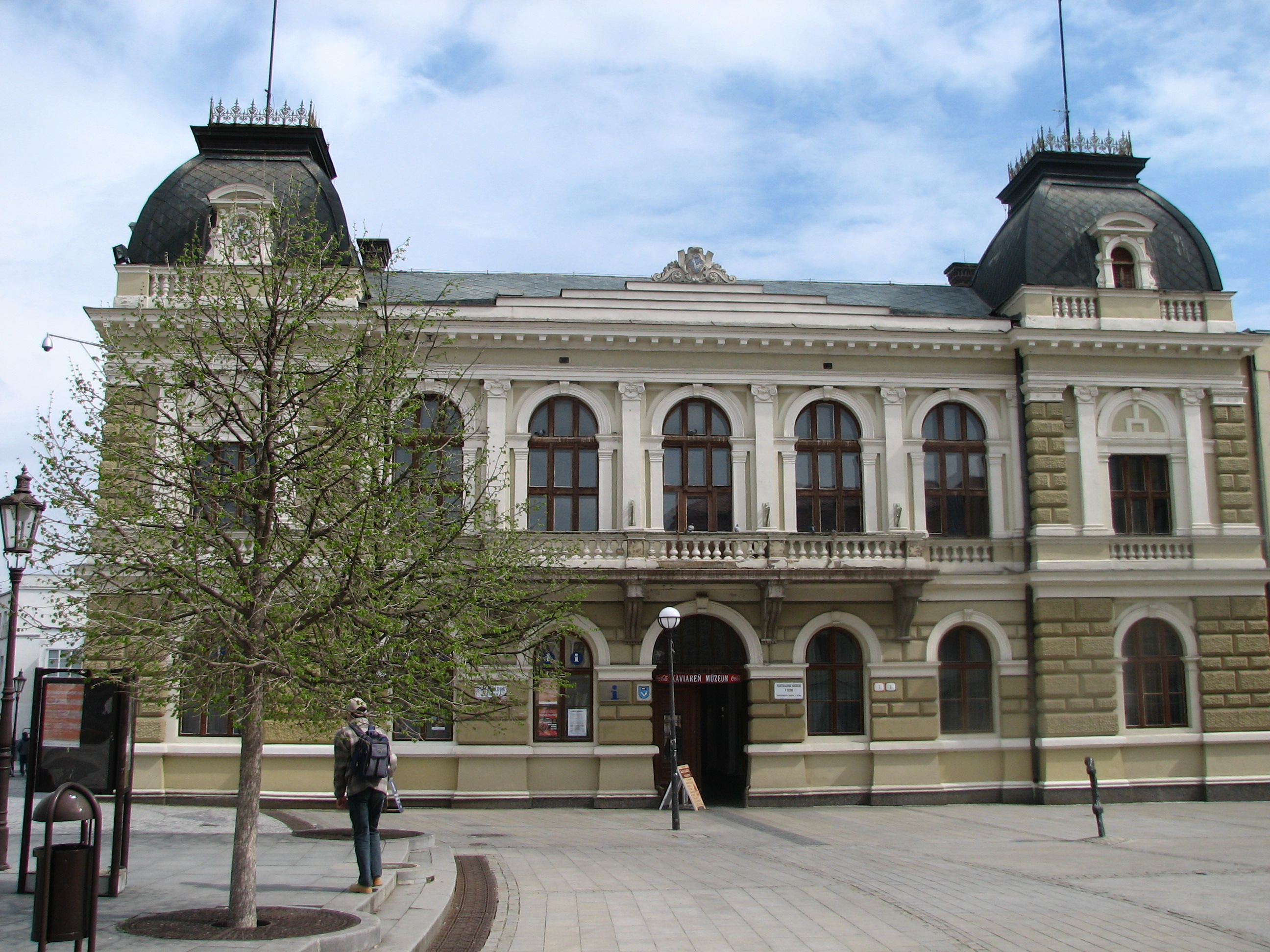 Townsmen house, Nitra